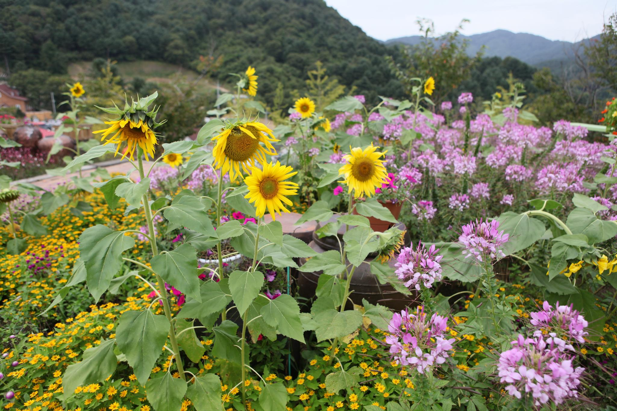 Herb Island 078